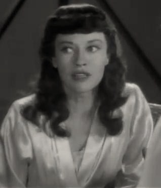 Virginia Christine in the film The Mummy's Curse (1944) - trailer (cropped screenshot)